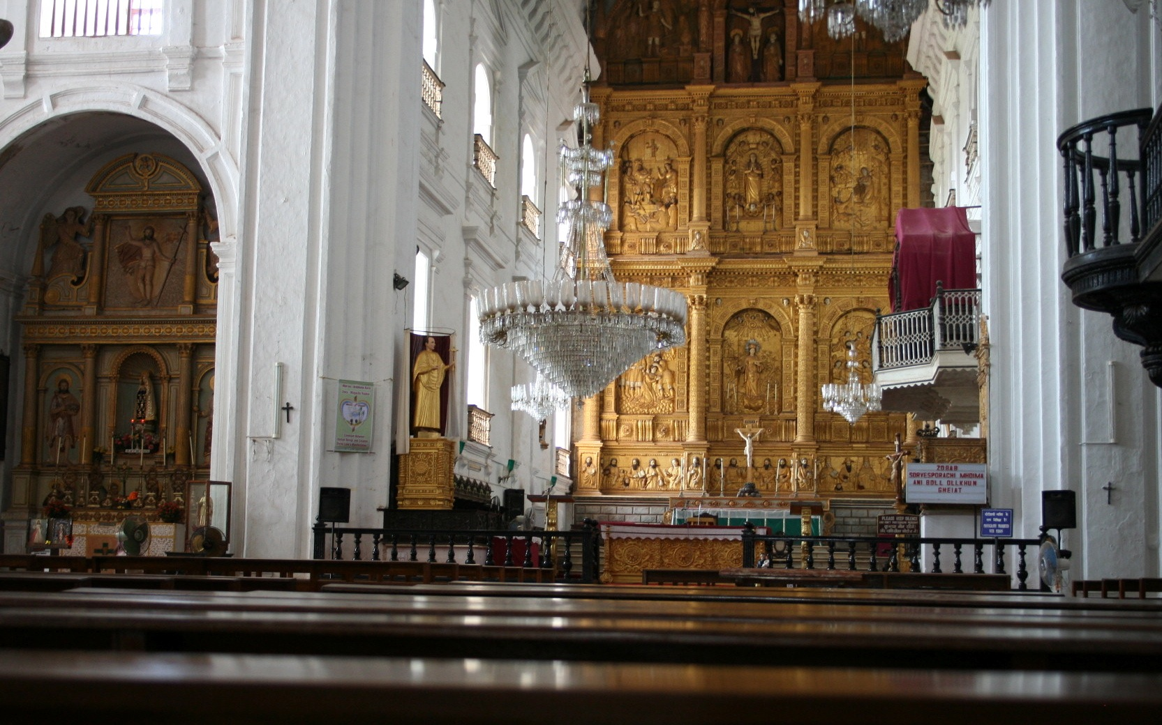 Portuguese cathedrals of Old Goa (Velha Goa). Syncretism tour, Oct '11.